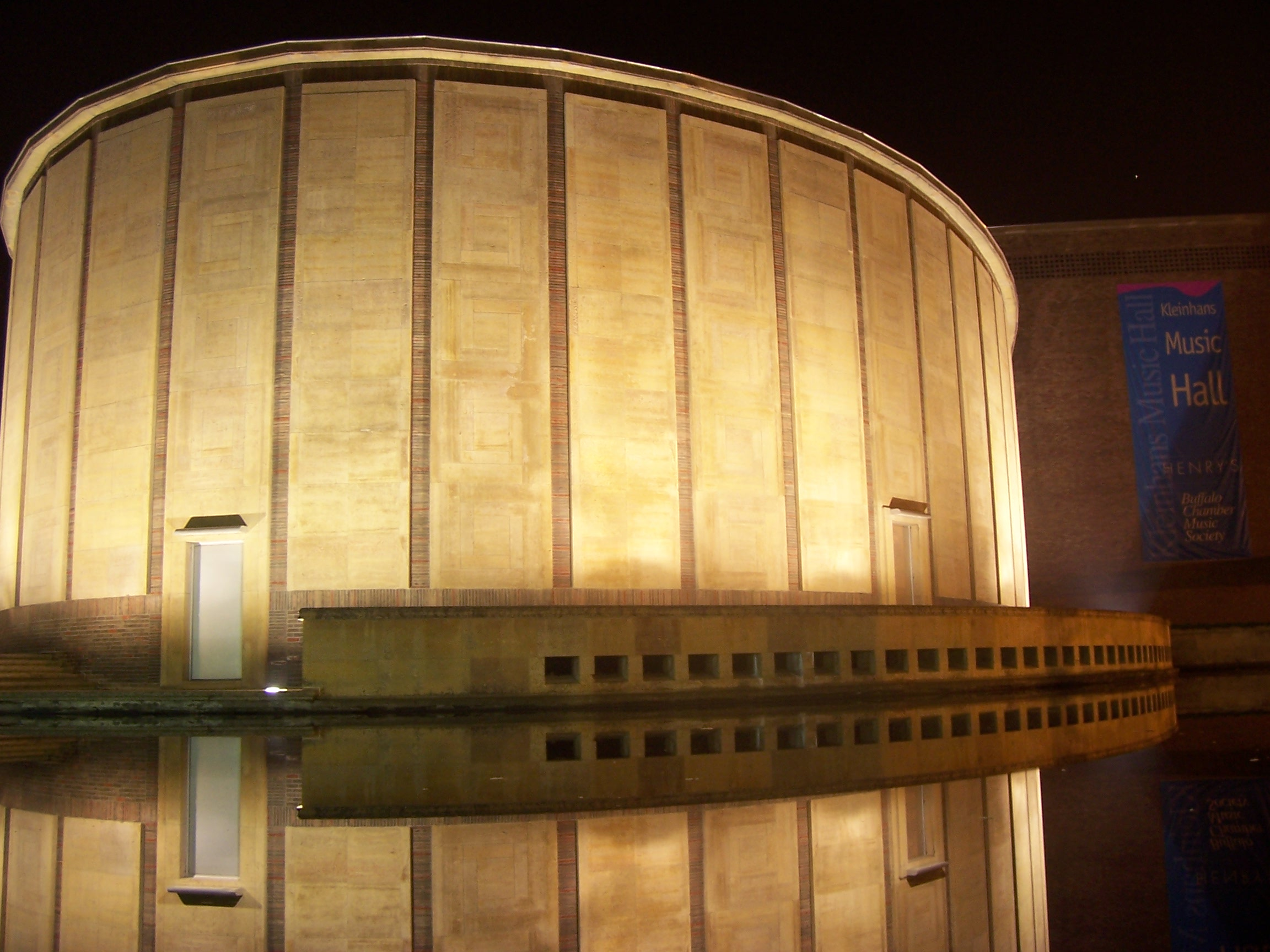 Nighttime photograph of Kleinhans Music Hall in Buffalo, NY